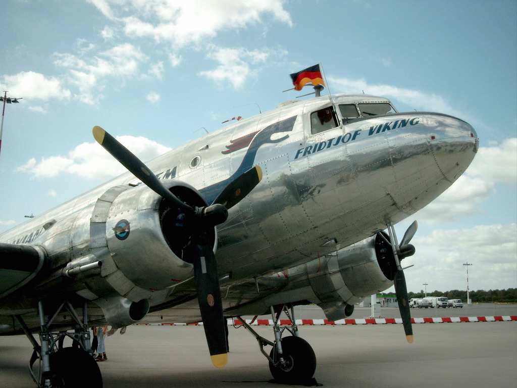 DC-3, Hamburg Airport Classics, 2003